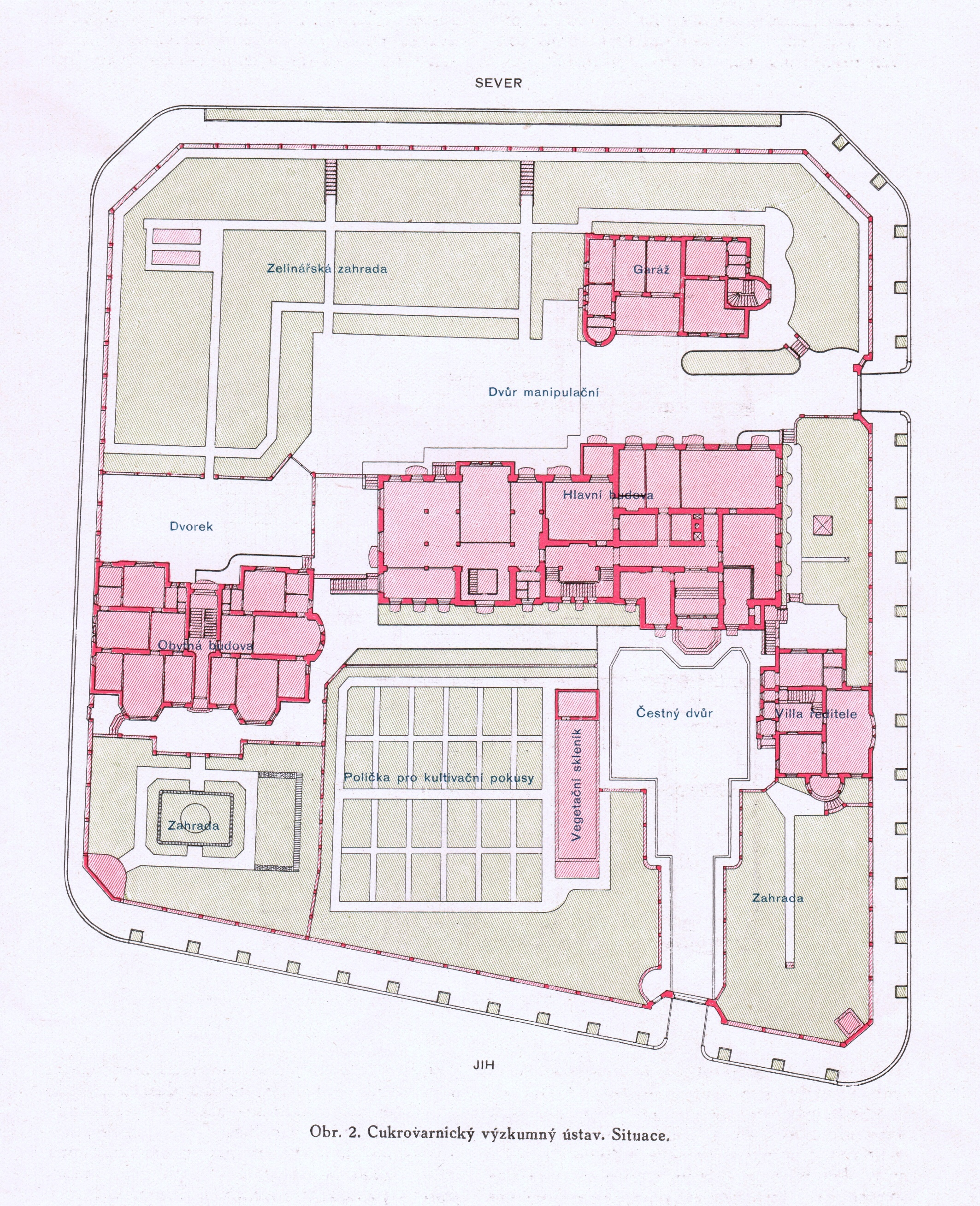 The Research Institute of the Czechoslovak Sugar Industry, Praha 6 - Střešovice